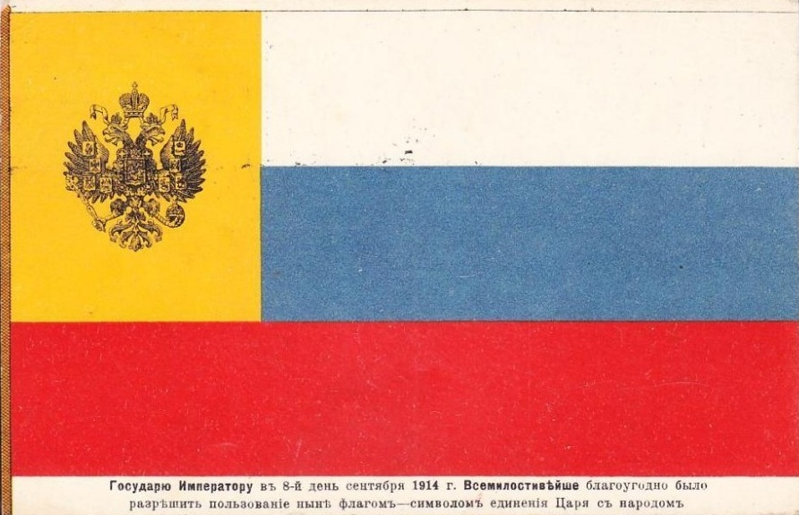 Flag of Russia of Sept. 8, 1914 on postcard. See averse on File:Postcard_1914_averse.jpg